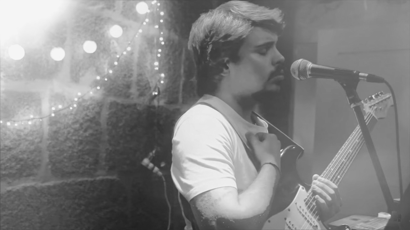 Renato Freitas performing live, Guimarães, December 2016.